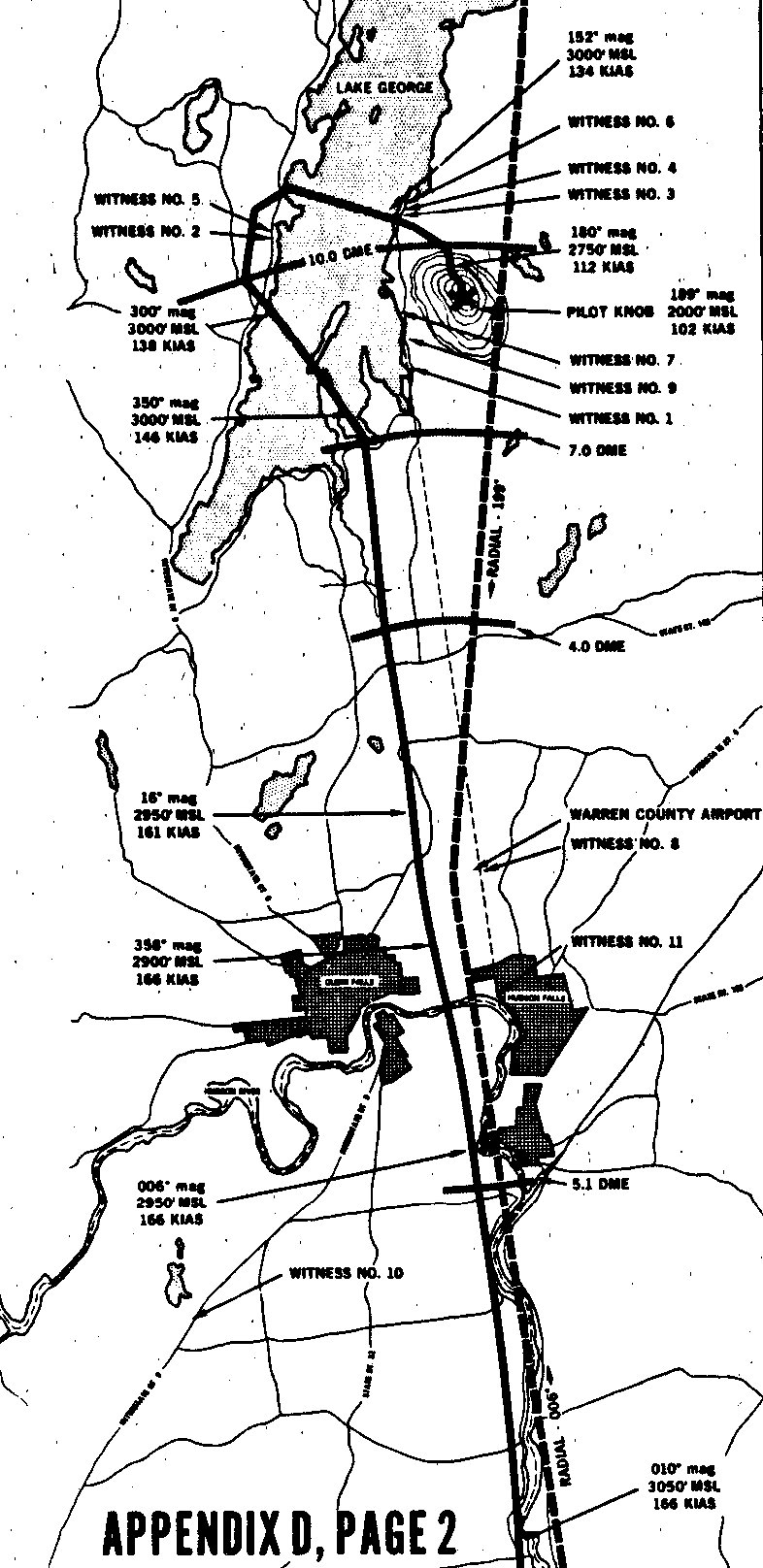 Image from NTSB report for Mohawk Flight 411 crash investigation. This image was prepared by NTSB, a US government agency, for public use. This image is therefore not copyrighted, under 17 USC 105, and can be used in WP. Crum375 18:03, 16 September 2006 (UTC)